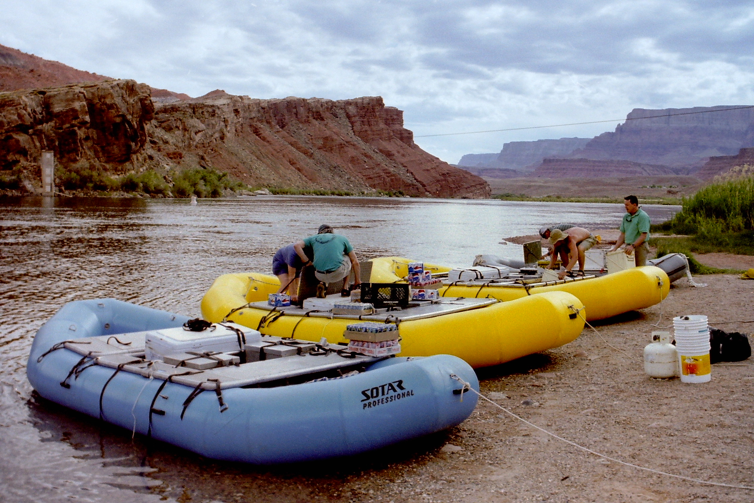 Lee's Ferry is a site on the Colorado River southwest of Page in Arizona, United States.